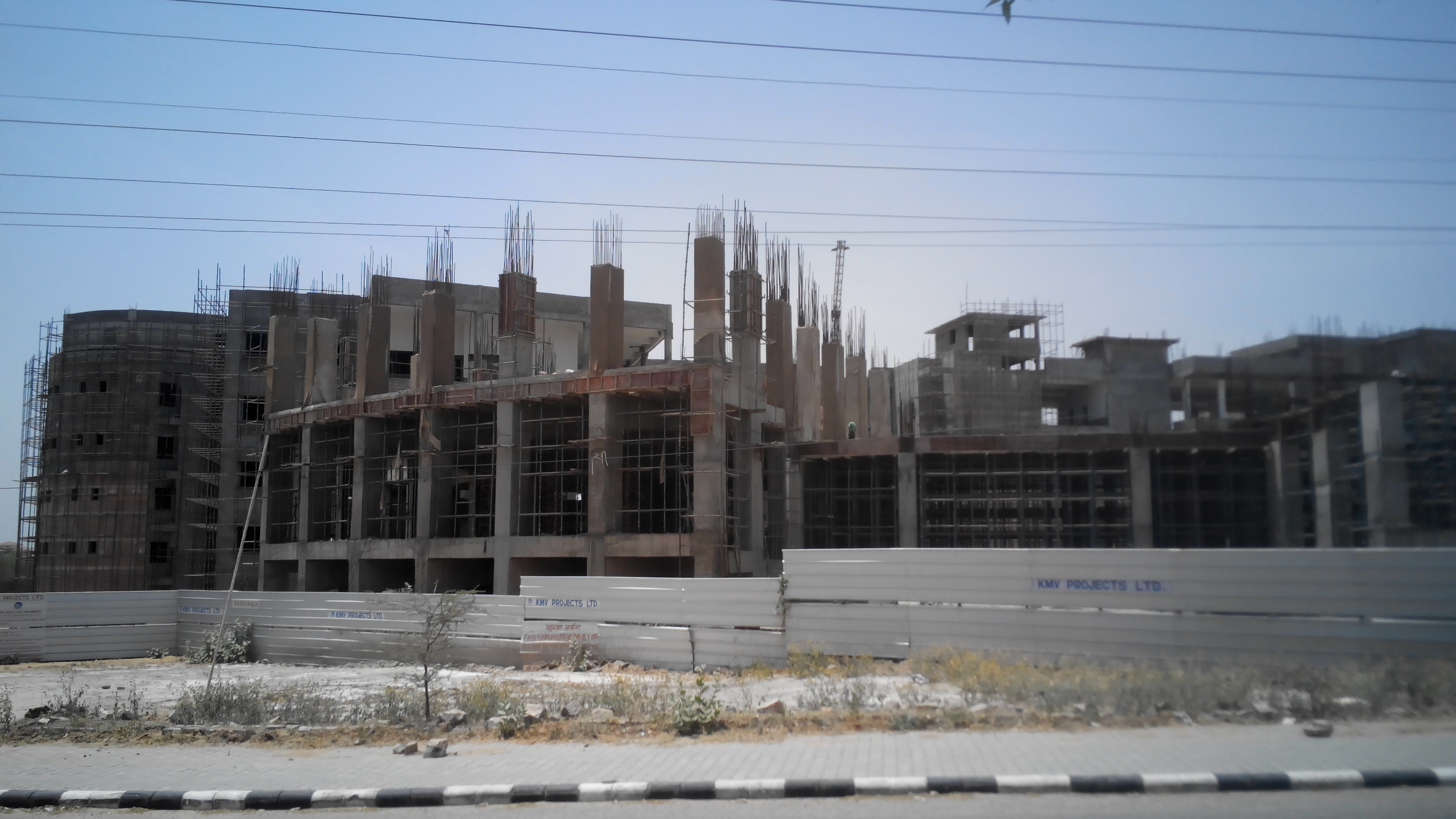 Malaviya National Institute of Technology Campus